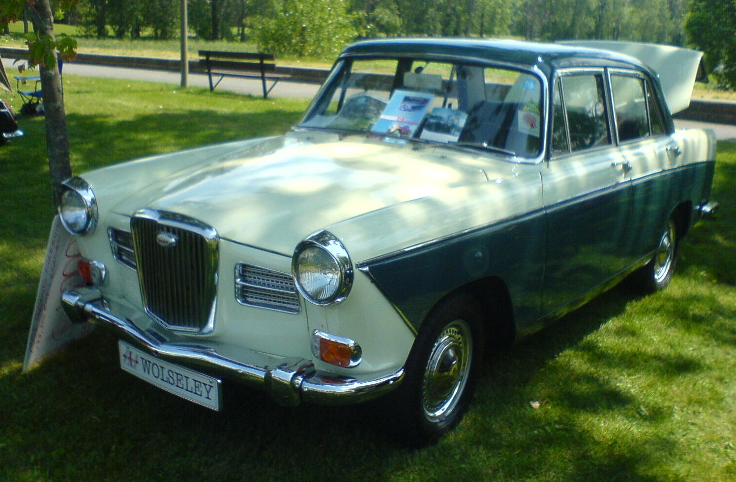 1969 Wolseley 16/60 photographed in Ottawa, Ontario, Canada at the 2010 Ottawa British Auto Show.